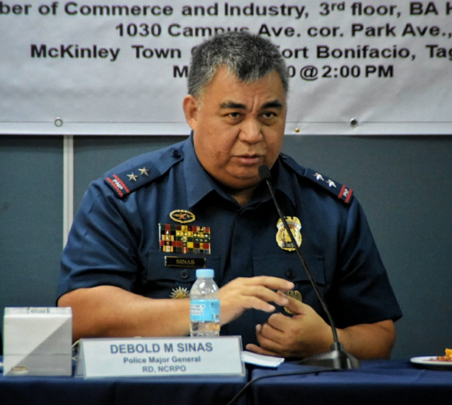 The Regional Director of NCRPO, PMGEN DEBOLD M SINAS, together with Guest of Honor and Speaker, Mr. Prudencio Gesta, Chairman, National Advisory Group for Police Transformation and Development (NAGPTD), graced the Oath Taking Ceremony, Election of Officers and Fellowship of the new Regional Advisory Council held at Philippine Chamber of Commerce and Industry, 3rd Flr, BA Hall Securities CIP Building 1030, Campus Ave. cor. Park Ave., McKinley Town Center, Fort Bonifacio, Taguig City.